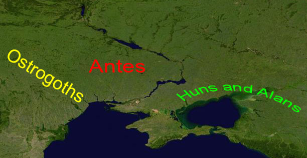 Approximate location of war parties (Ostrogoths, Antes, Huns and Alans) in the Northern Black Sea region (Sarmatia) in circa 380.